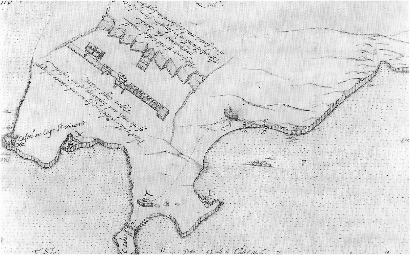 British drawing of 1587, showing the area of the Capes of Sagres and St. Vincent, in the region of Algarve, southern Portugal. The Sagres fortress is drawn in two manners, first on its location, in the bottom and center, and then detailed in the left center of the image.